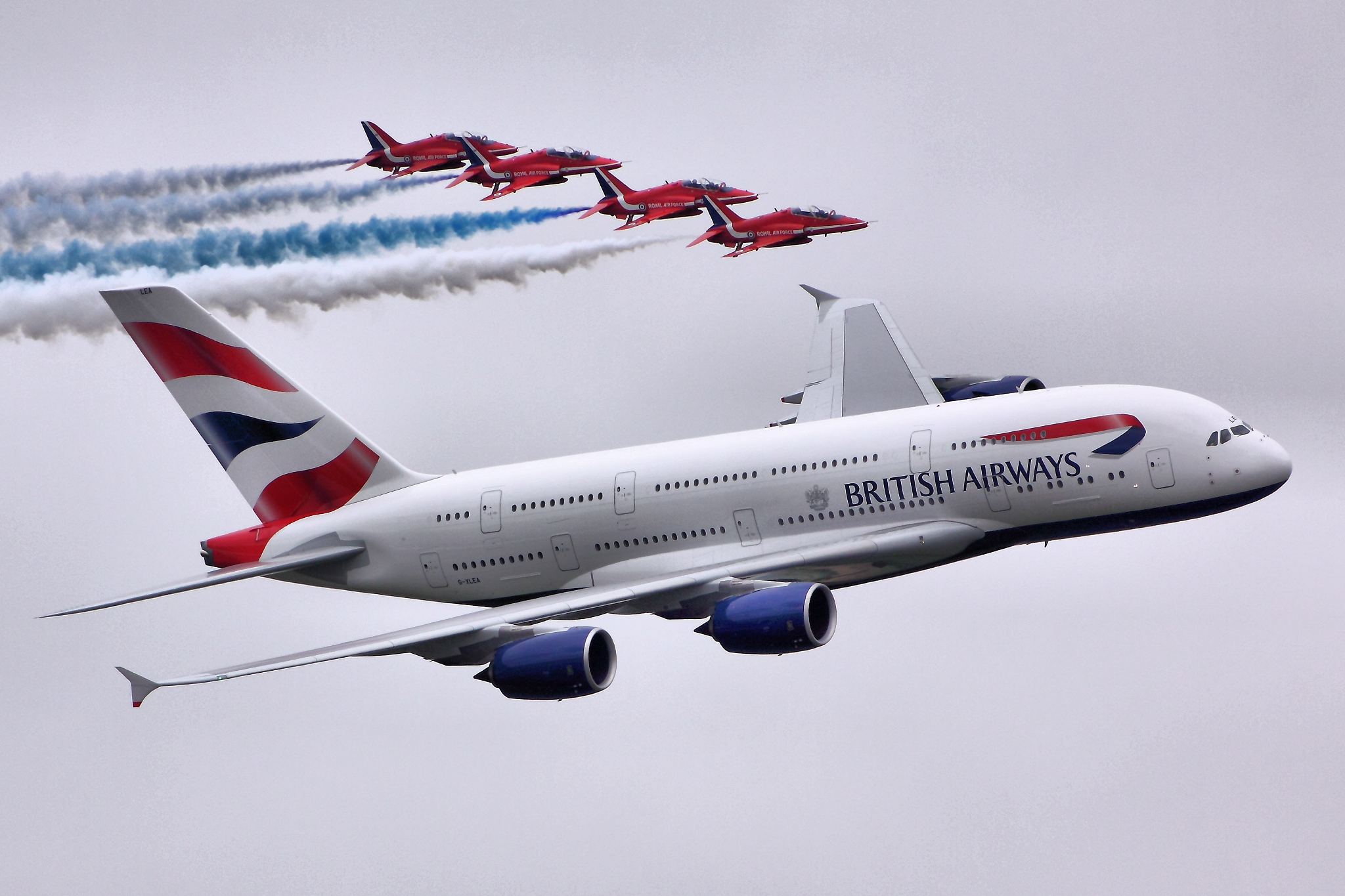 A380 & Red Arrows - RIAT 2013